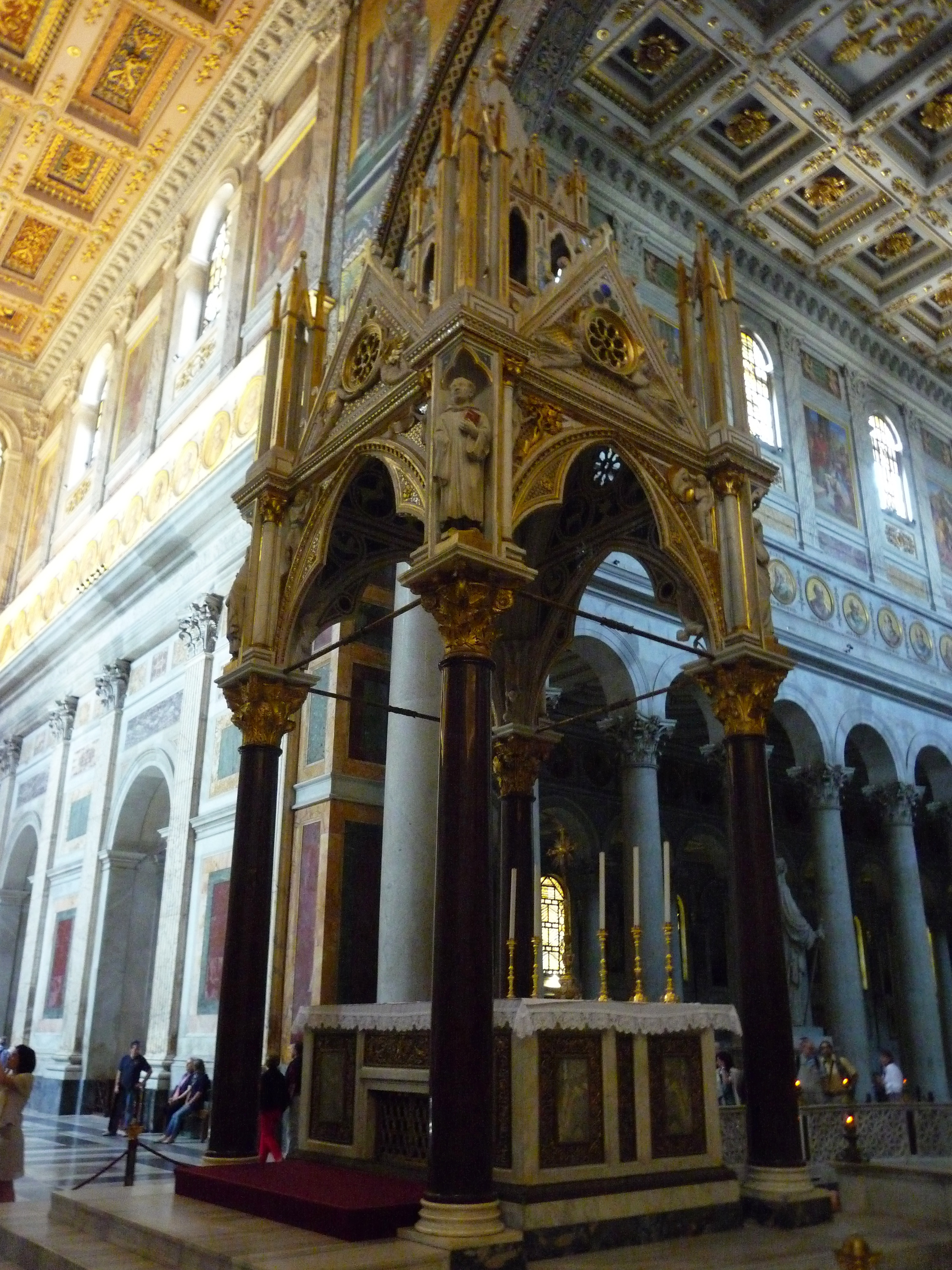 Basilica of Saint Paul Outside the Walls (Rome) - the tabernacle of the confession